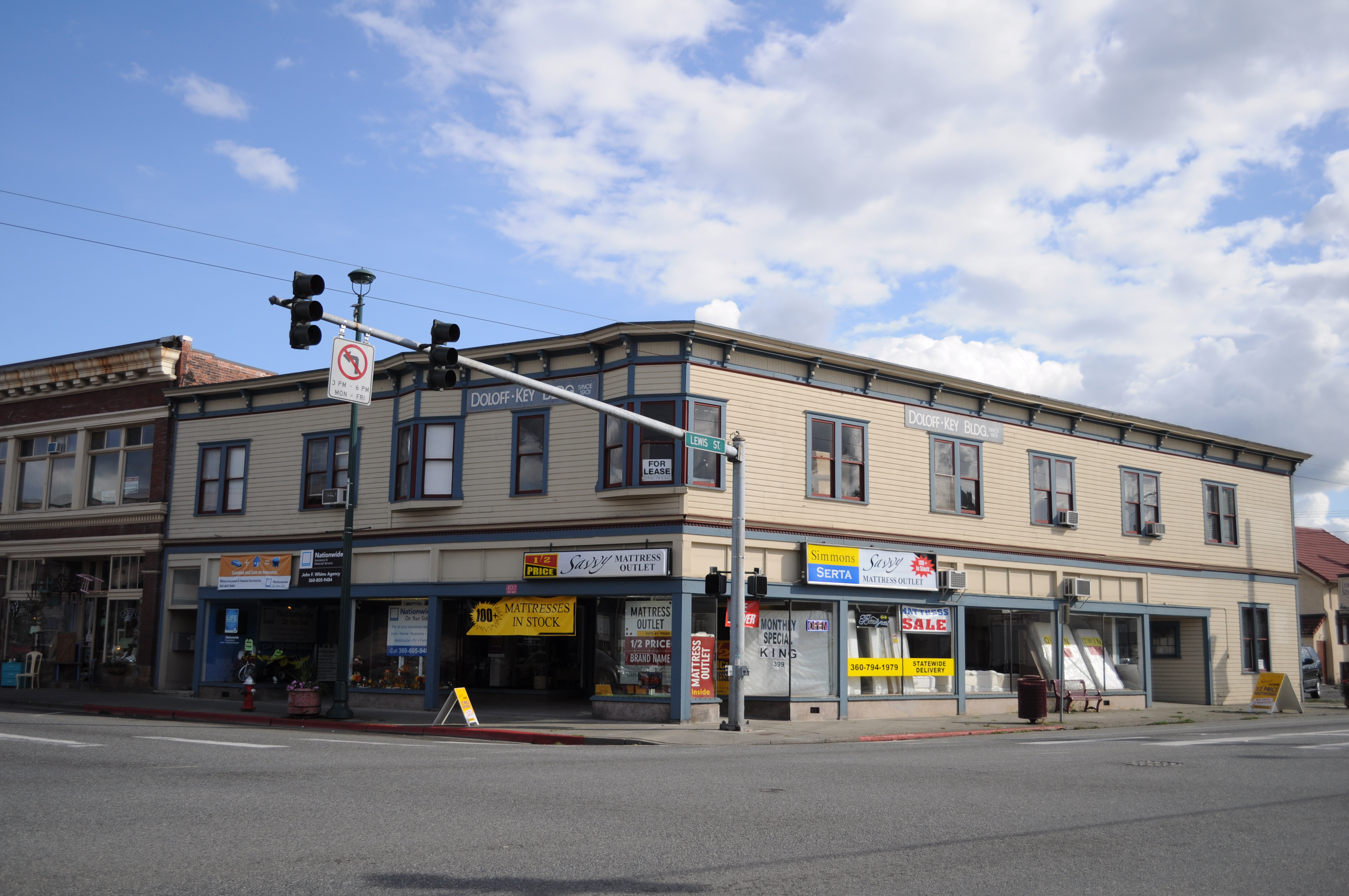 Doloff-Key Building at the corner of Main & Lewis Streets, Monroe, Washington. This corner is Monroe's equivalent of a Kilometre Zero.